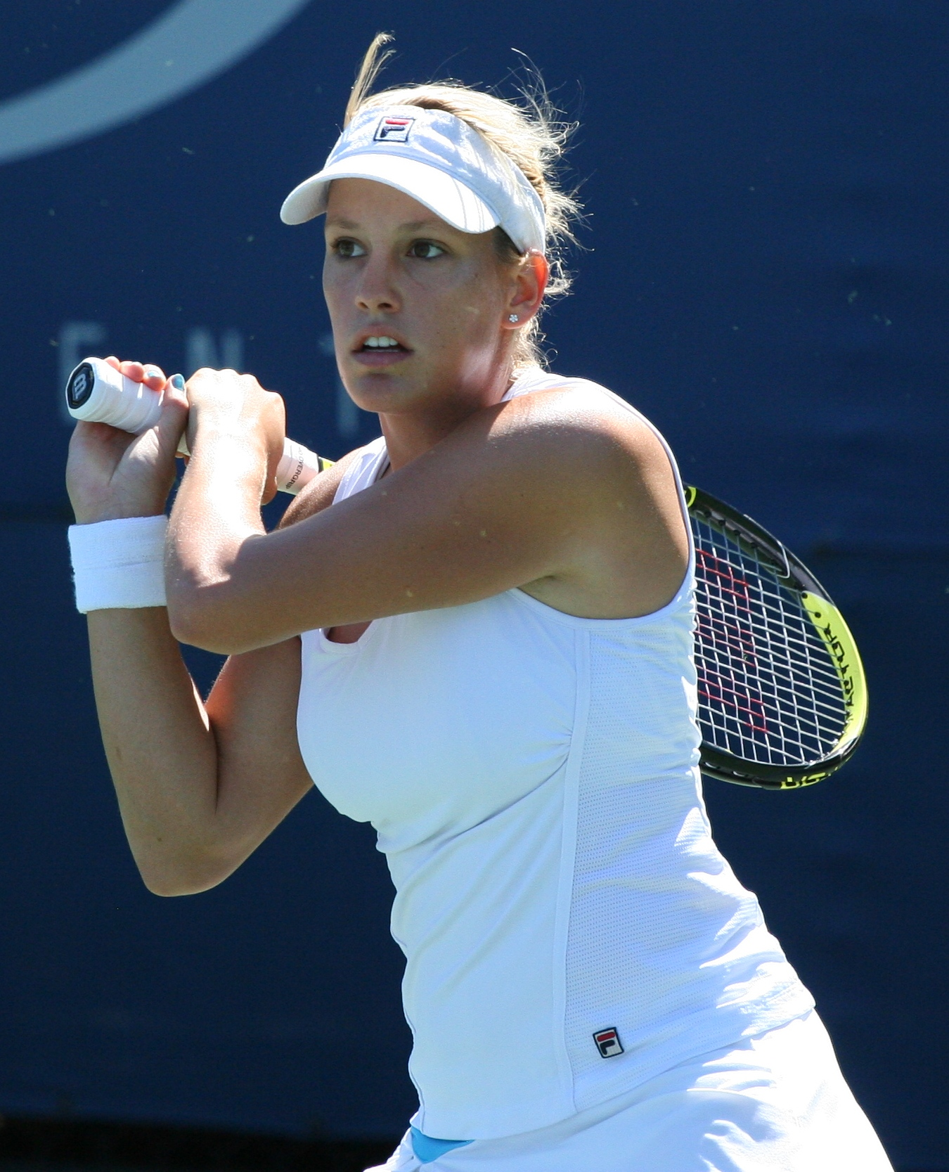 U.S. Open Tuesday, Sept. 1, 2009